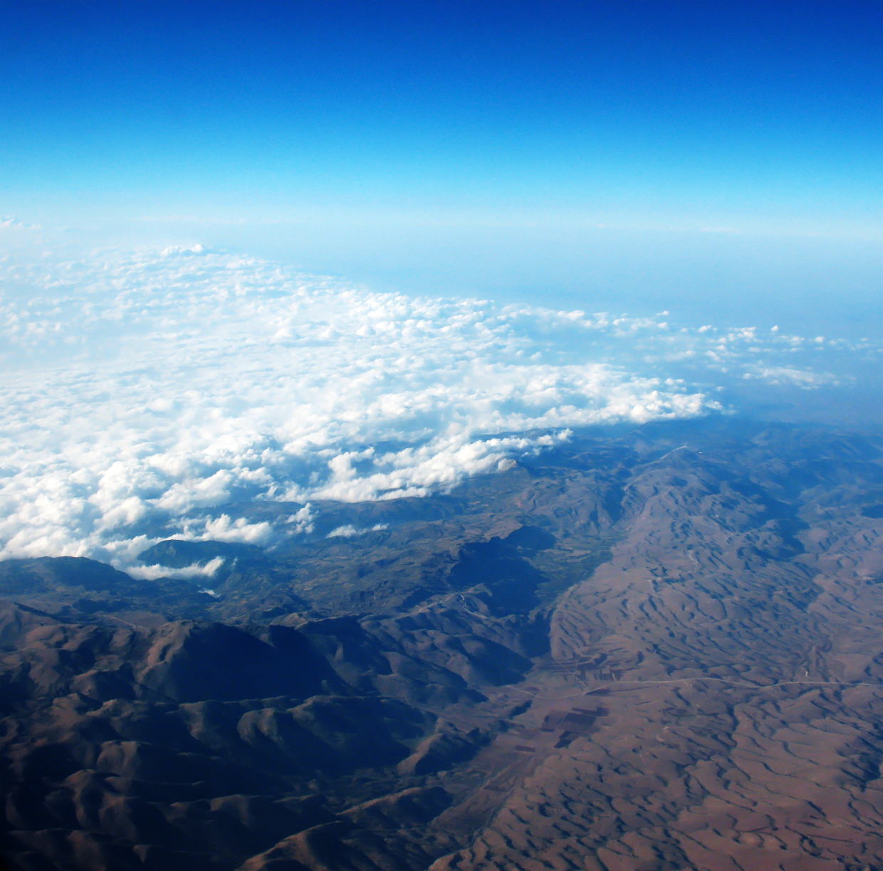 Taurus Mountains with clouds, seen from a plane Kurdî: Çîyayên Taurus bi ewran ra, tên dîtin ji balefirekê